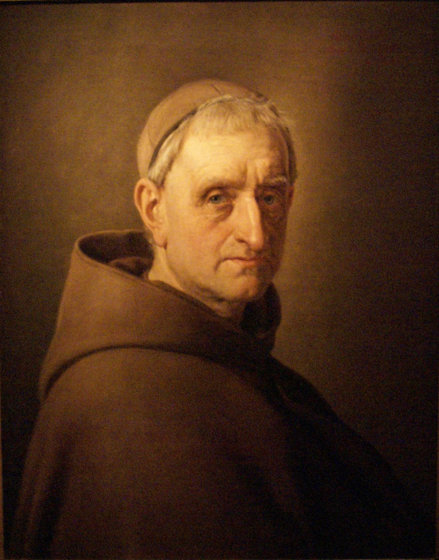 The danish painter Albert Küchler, who became a franciscan friar. Painted 1862 by the danish Jørgen Roed